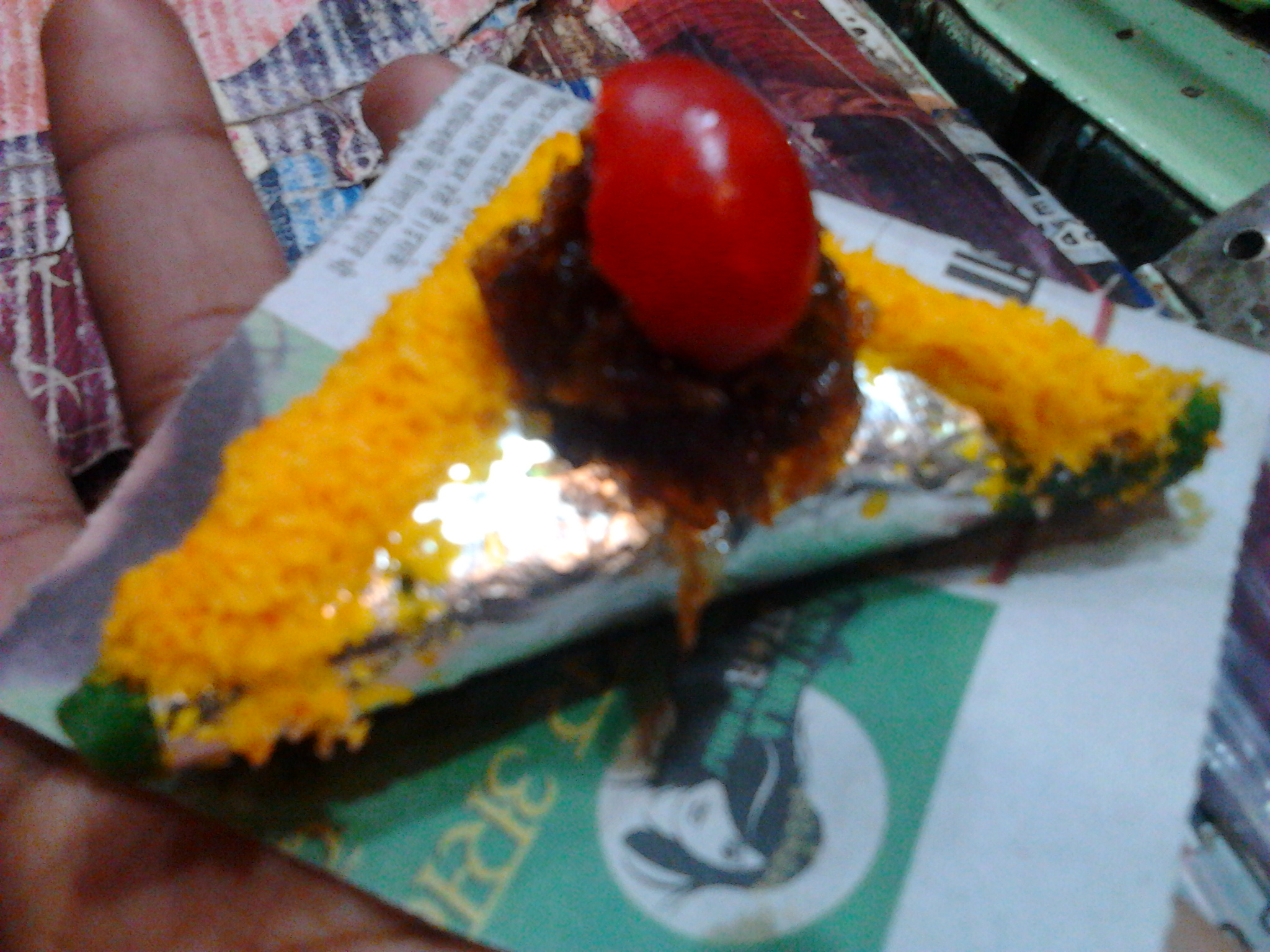 PAAN is one of the most popular cuisine in INDIA. In some parts of India Paan is made up by adding differnt types of varieties of spices and cherries. Its just like a Desert type.